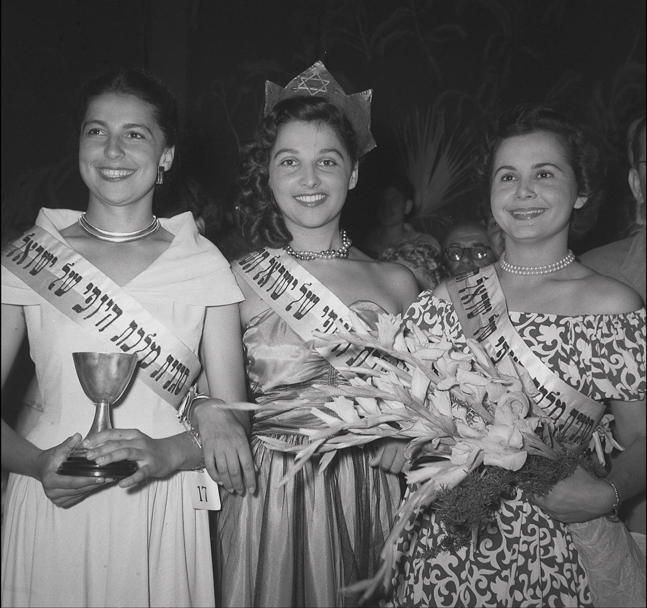 Miss Israel 1950 and her runner-ups